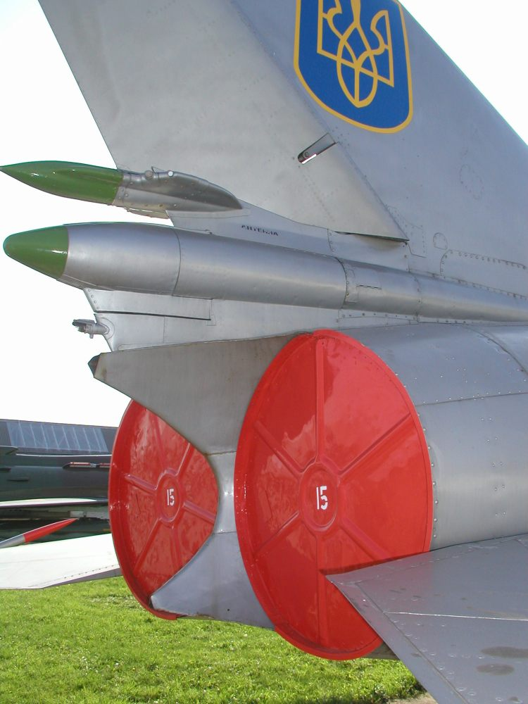 Former Ukrainian Sukhoi Su-15TM fighter (in the Museum of Aviation is Kosice, Slovakia)